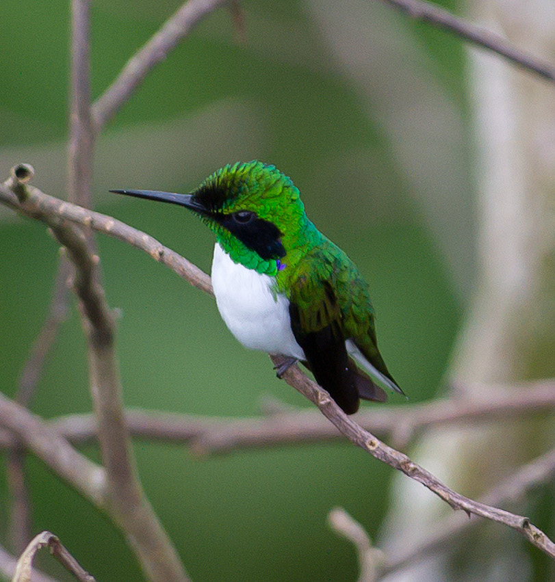 Heliothryx aurita Black-eared Fairy